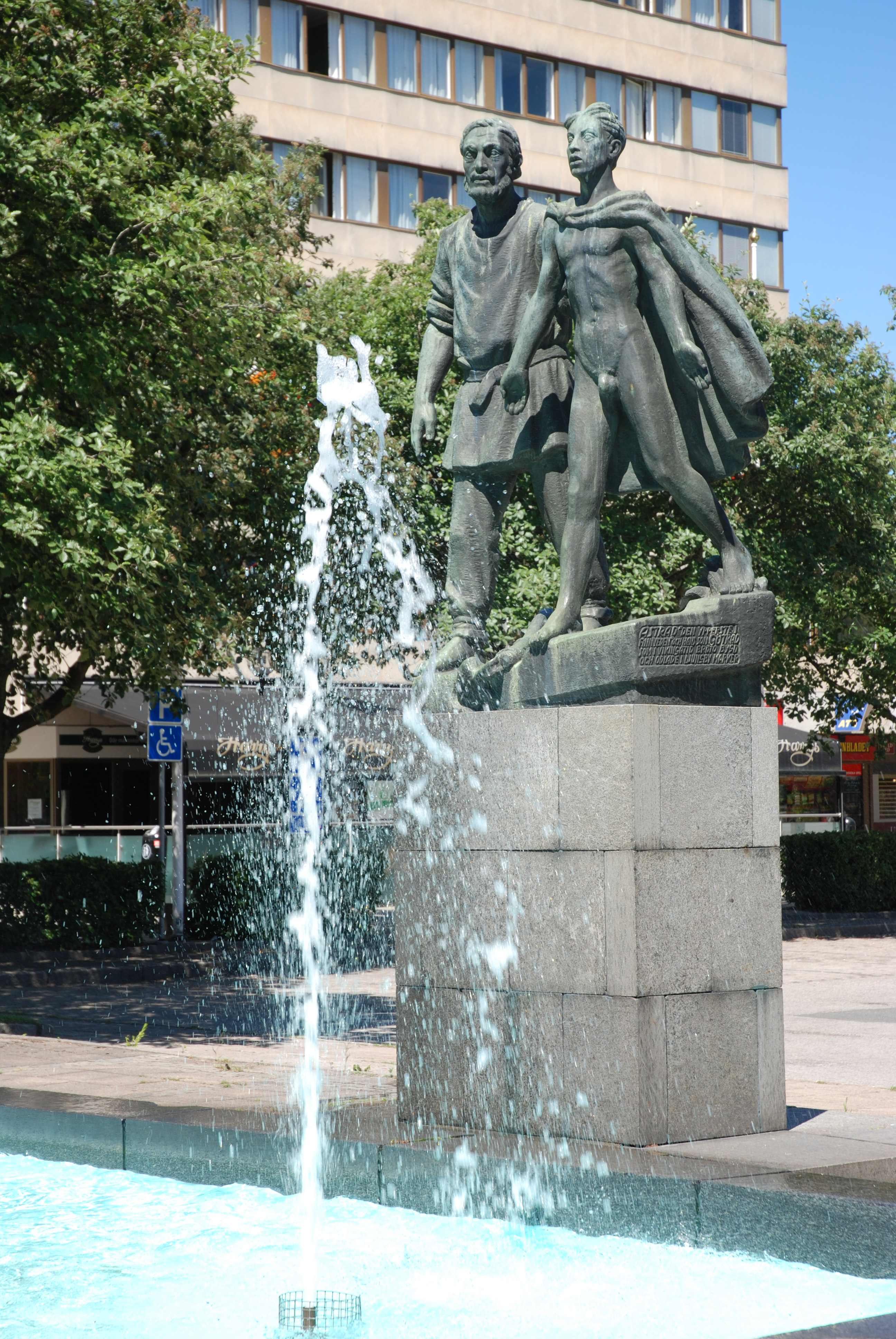 Skulpturen Astrad och Götrad av John Lundqvist, 1952, brons, Ljungby